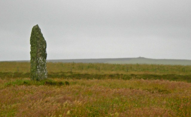 Mor Stein Standing Stone, Shapinsay, Orkney Islands Mor Stein in an agricultural field, with background of Orkney Mainland.